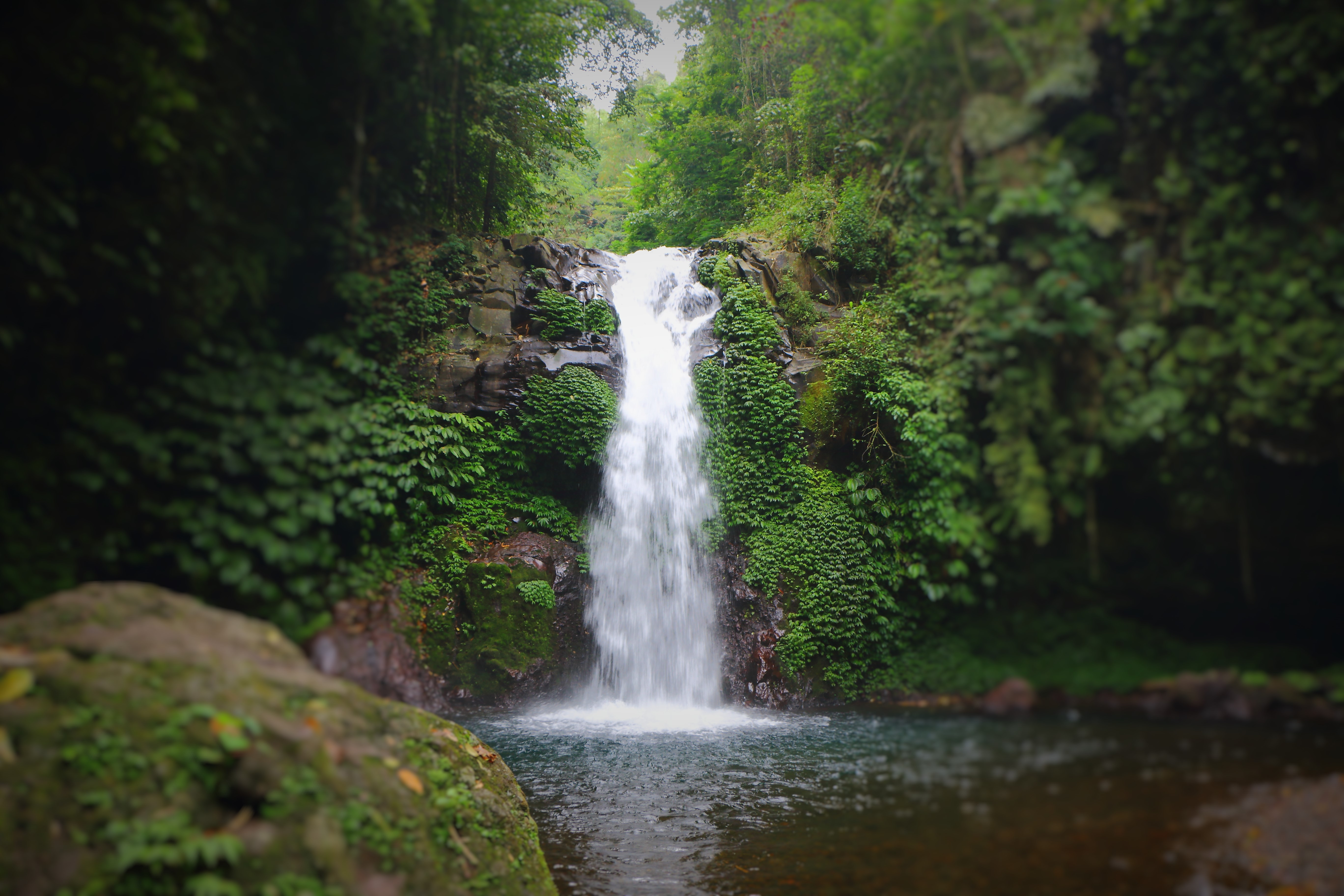 Gitgit waterfall, located in Bali, Indonesia.